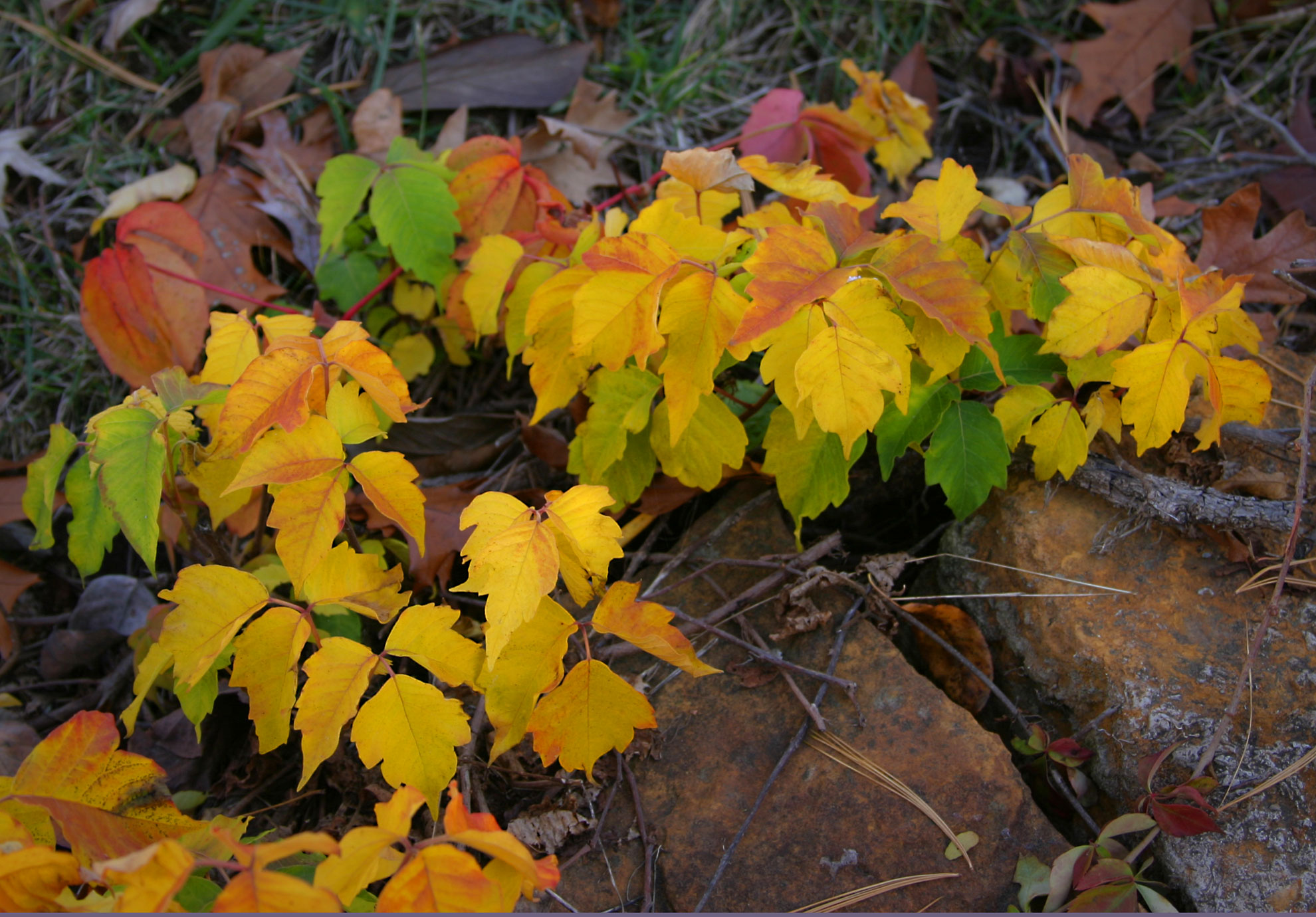 Poison Ivy (Toxicodendron radicans) (Rhus radicans) growing in Decatur Illinois U.S.A. Fall coloration